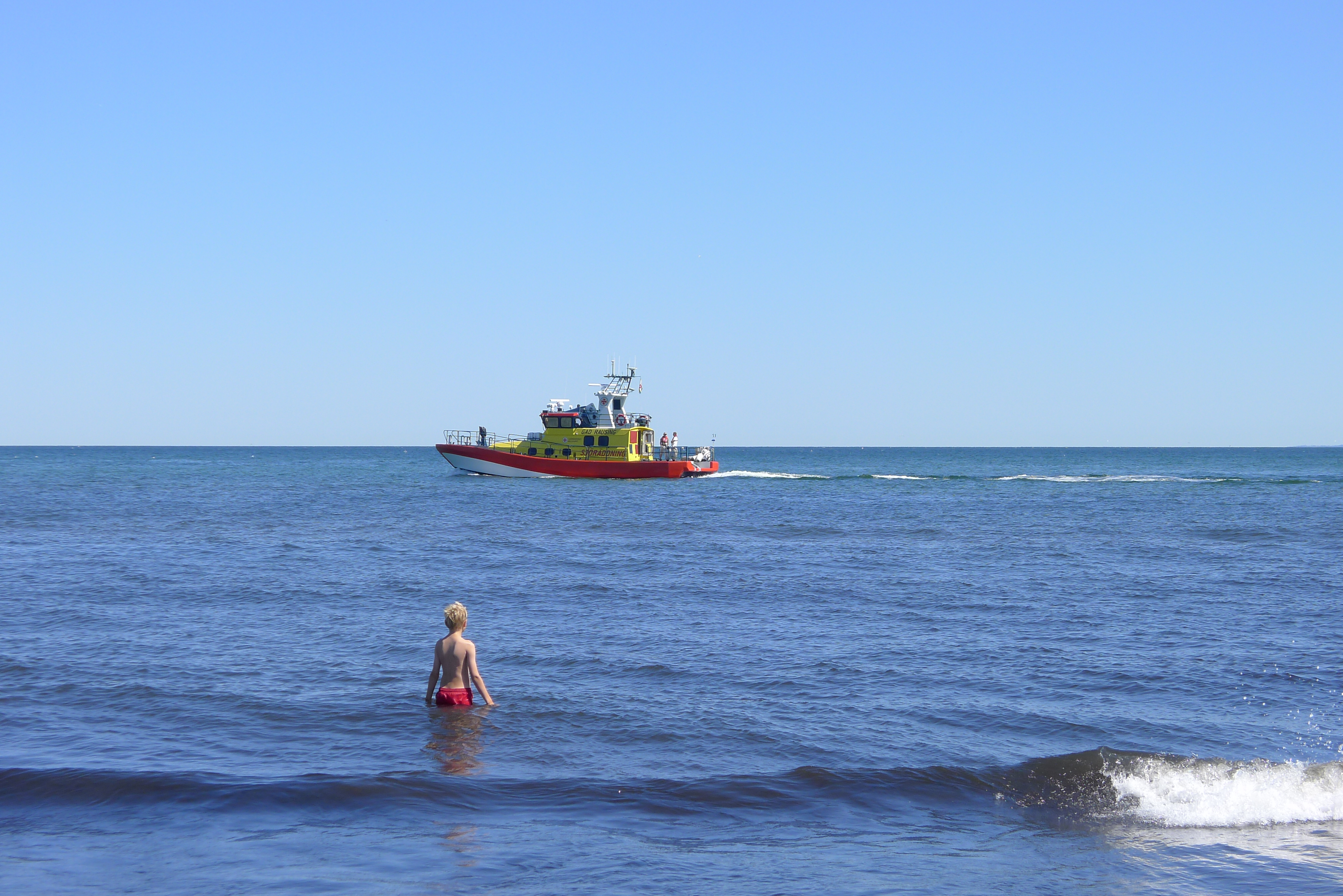 Swedish Sea Rescue Society Search And Rescue Vessel Rescue Gad Rausing in Mälarhusen. , Rescue Gad Rausing Sjöräddningssällskapet Skillinge Båtar